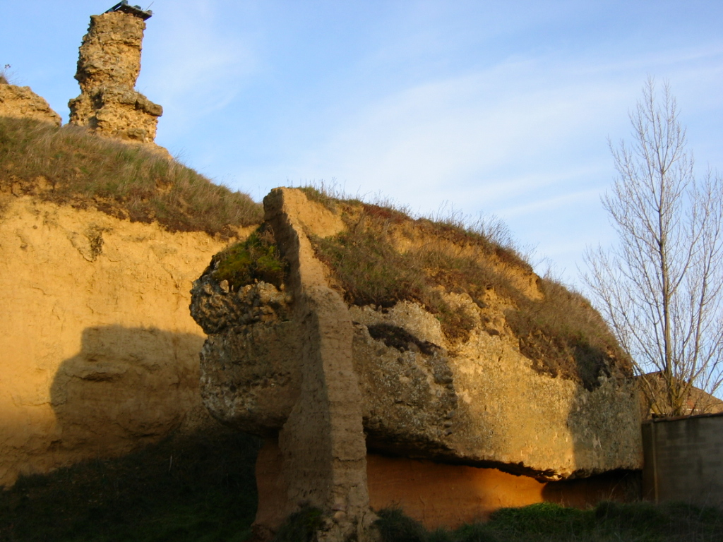 Castle of Castrillo de Villavega (Palencia, Castile and León).